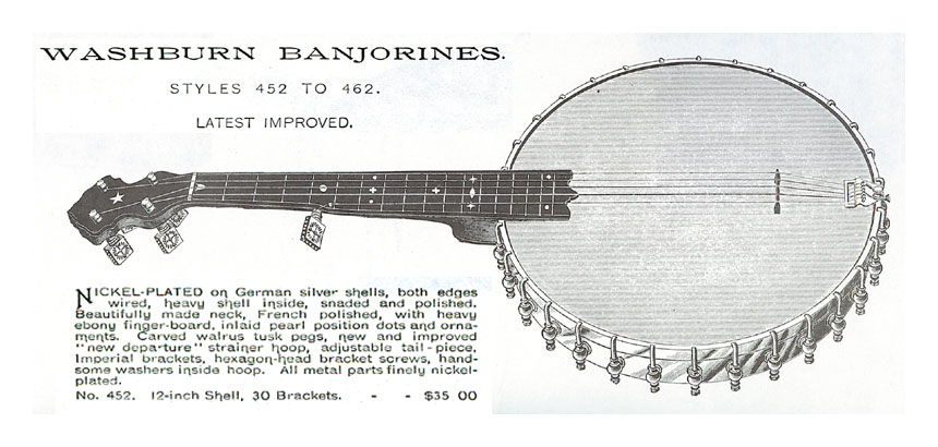 Banjorine page from the Washburn company catalog of 1892